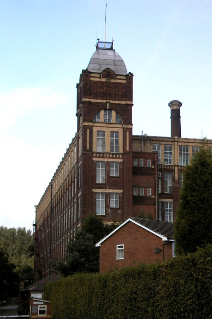 Kearsley Mill - Stoneclough, Greater Manchester, England. Household textiles are still manufactured in Kearsley Mill.